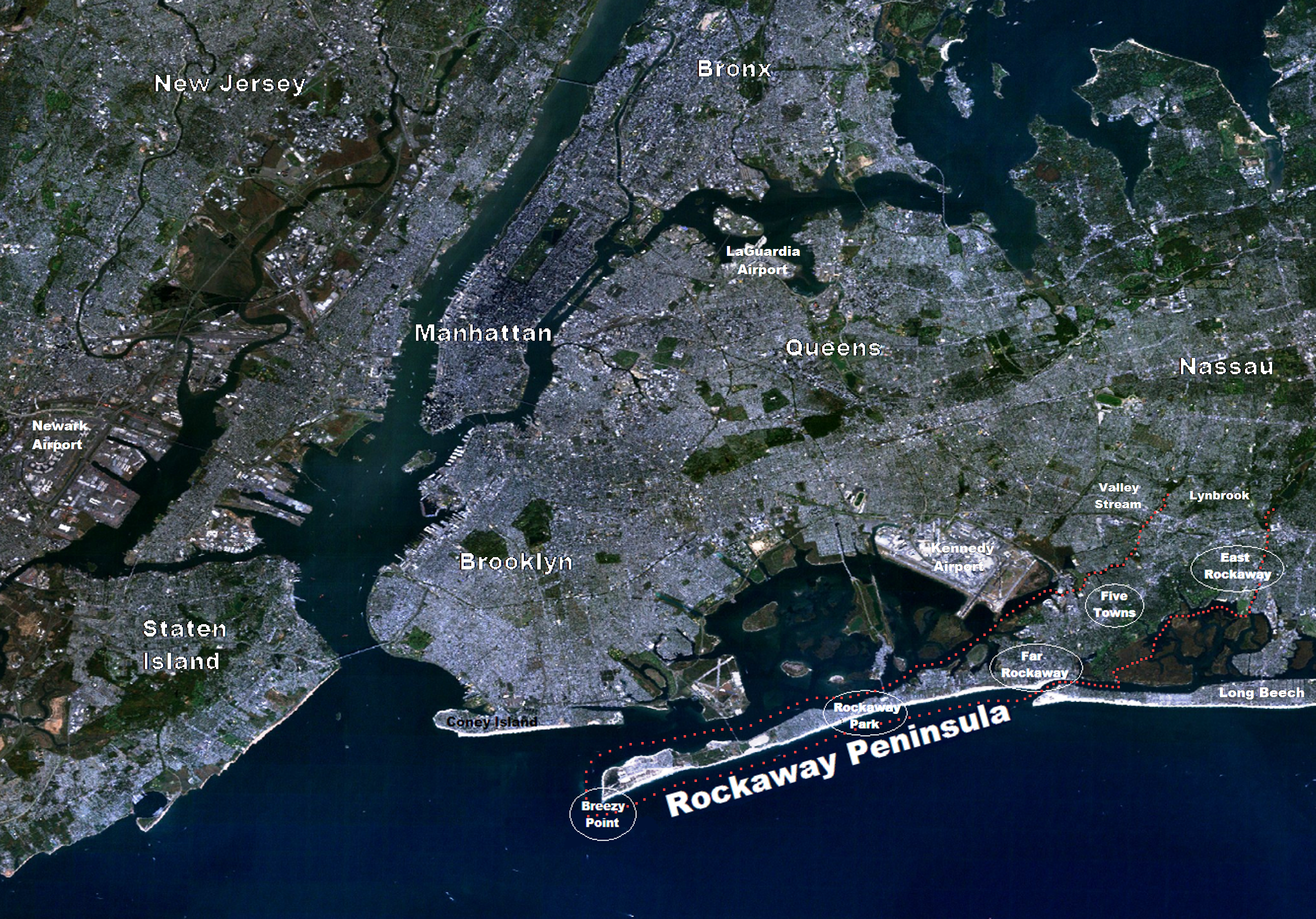 Landsat of NYC Metro Area with emphasis on The Rockaway Peninsula. Red dotted line follows the courses of tidal water to the head of the peninsula in the north-east. (right side of photo)